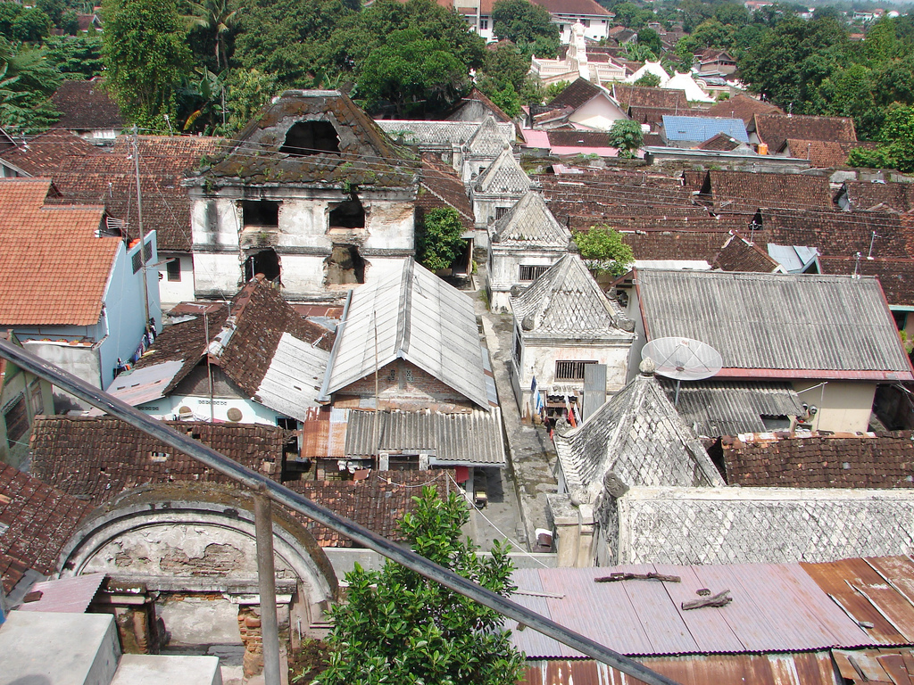 Row of small Tajug buildings that functioned as air vents for the underground tunnel. On the left is the ruin of the Cemethi Island. On the background to the right is the eastern gate of Gedhong Gapura Panggung. The area, once an artificial lake, is now filled with settlements